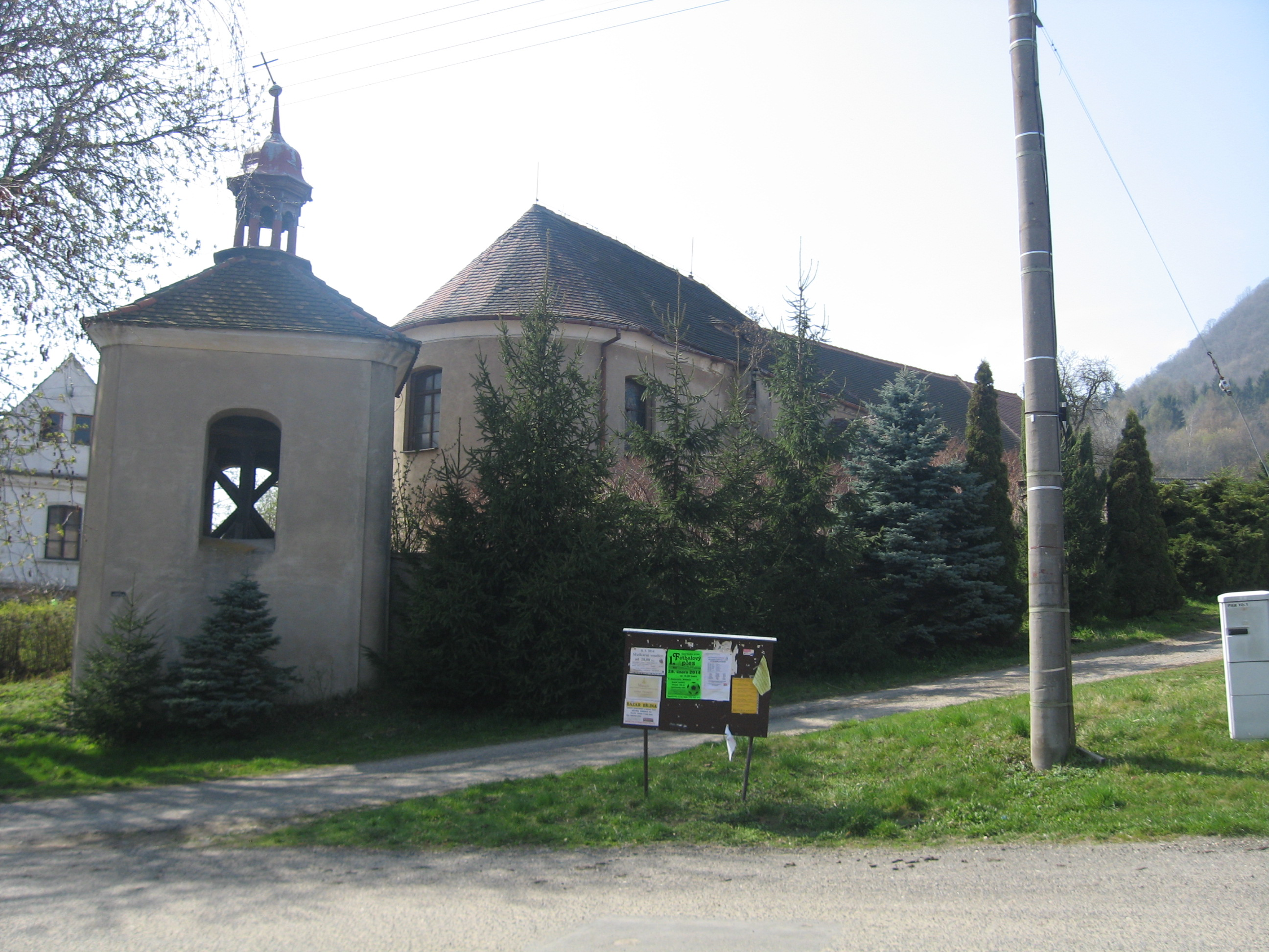 Church and bell tower in Lipá